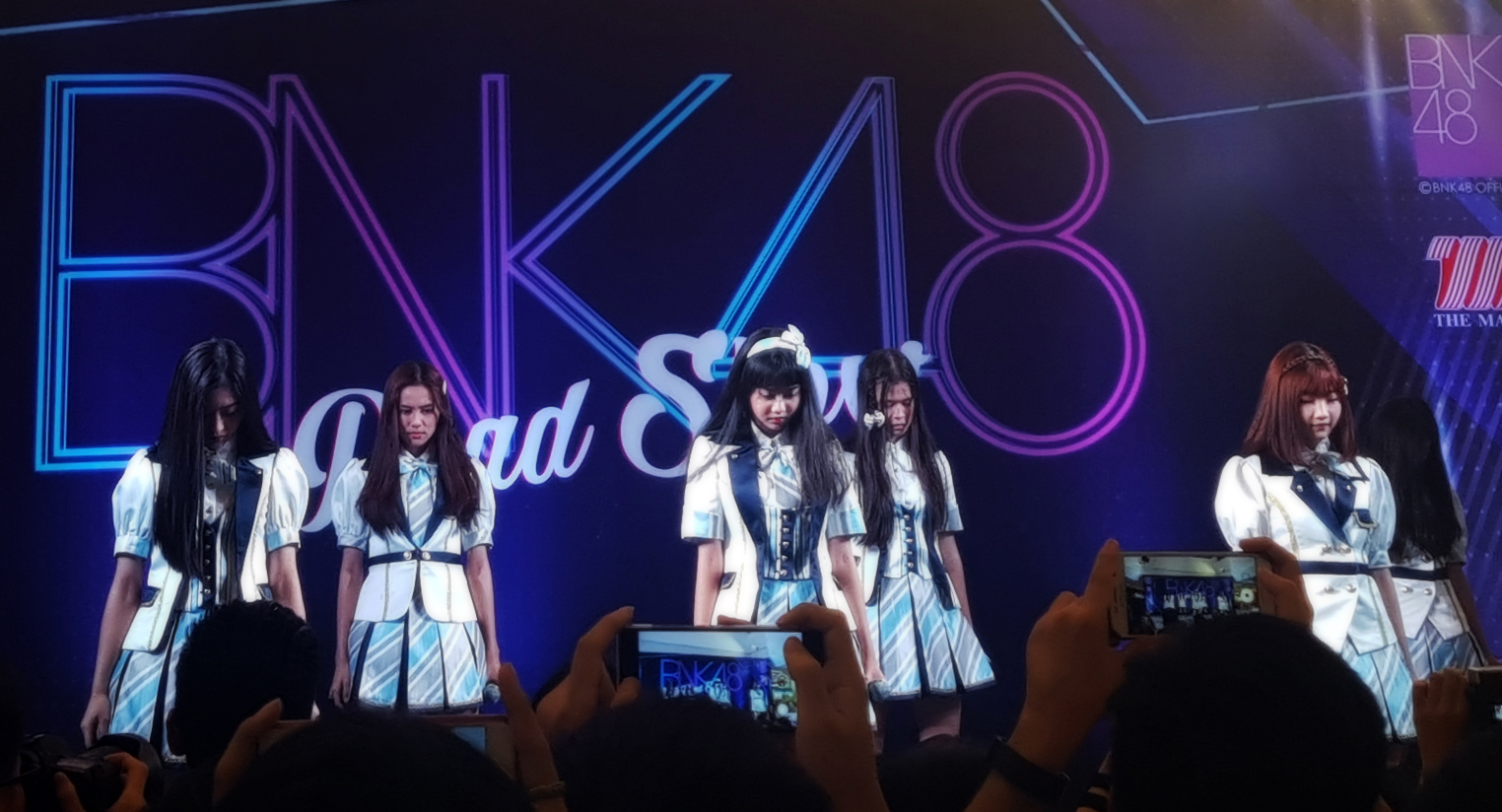 BNK48 at a roadshow event held at The Mall Bang Kapi auditorium, Bang Kapi District, Bangkok, Thailand, on Sunday, 23 July 2017. The participating members were: Performers: Jennis, Kaimook, Maysa, Miori, Namhom, and Nam-Neung; Emcees: Mobile and Pupe.